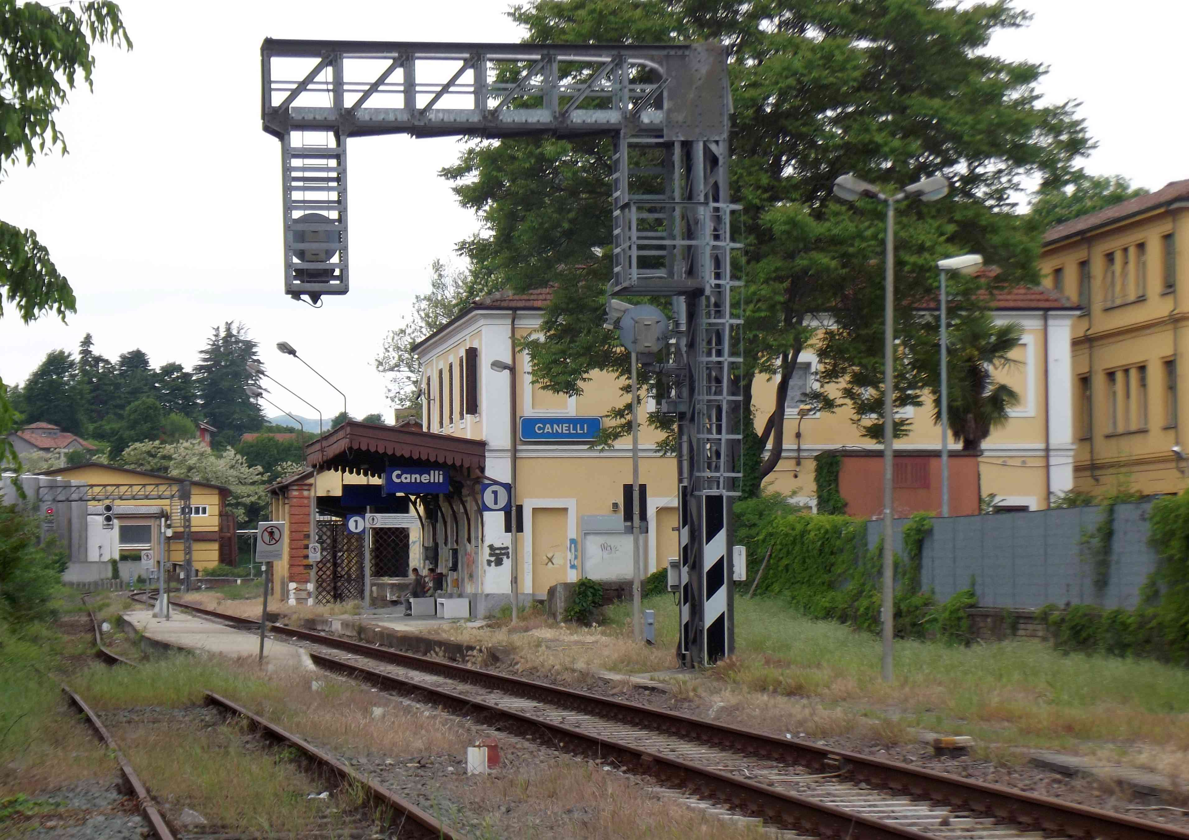 Alessandria–Cavallermaggiore railway: Canelli train station (AT, Italy)